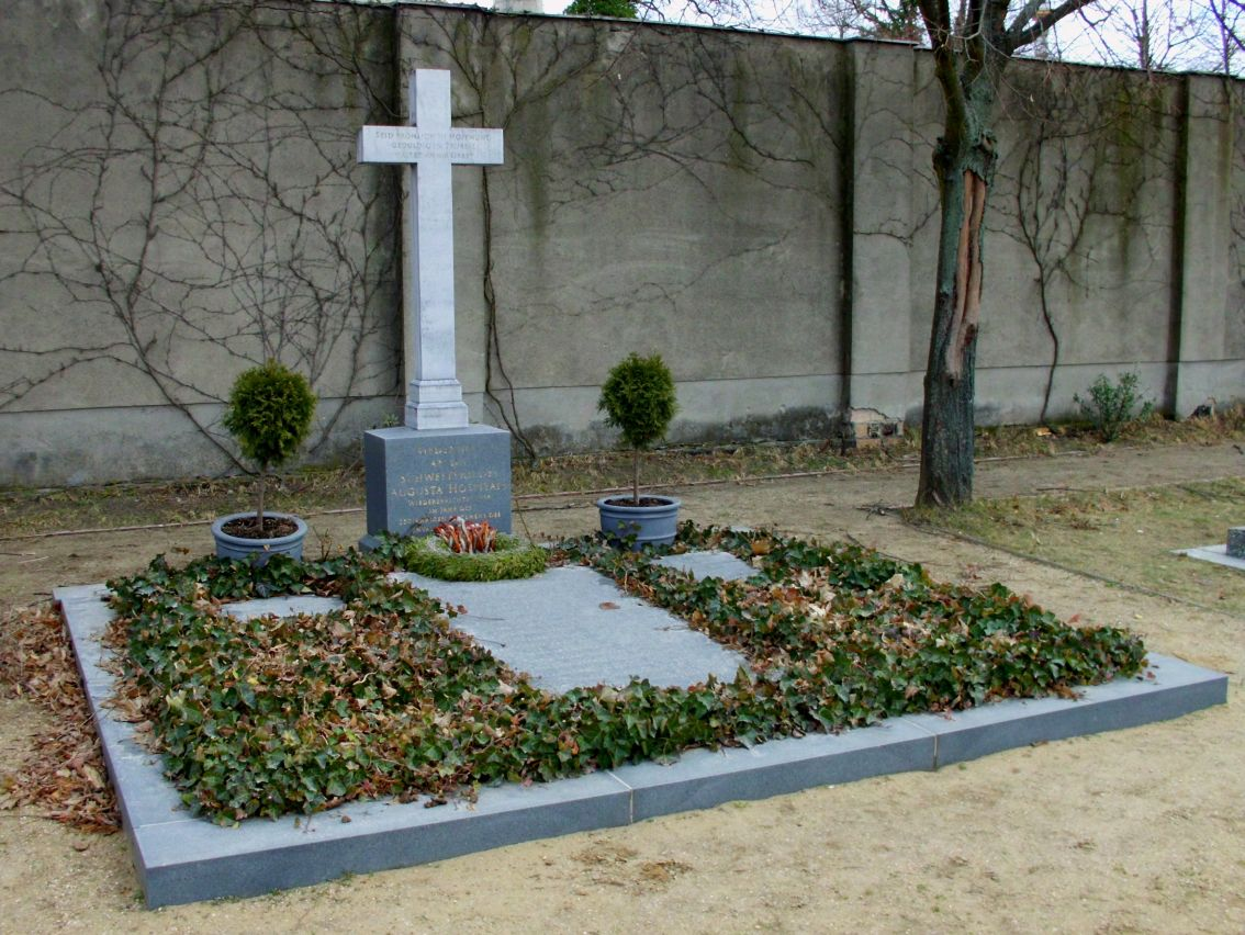 Memorial to the nurses of the Augusta Hospital